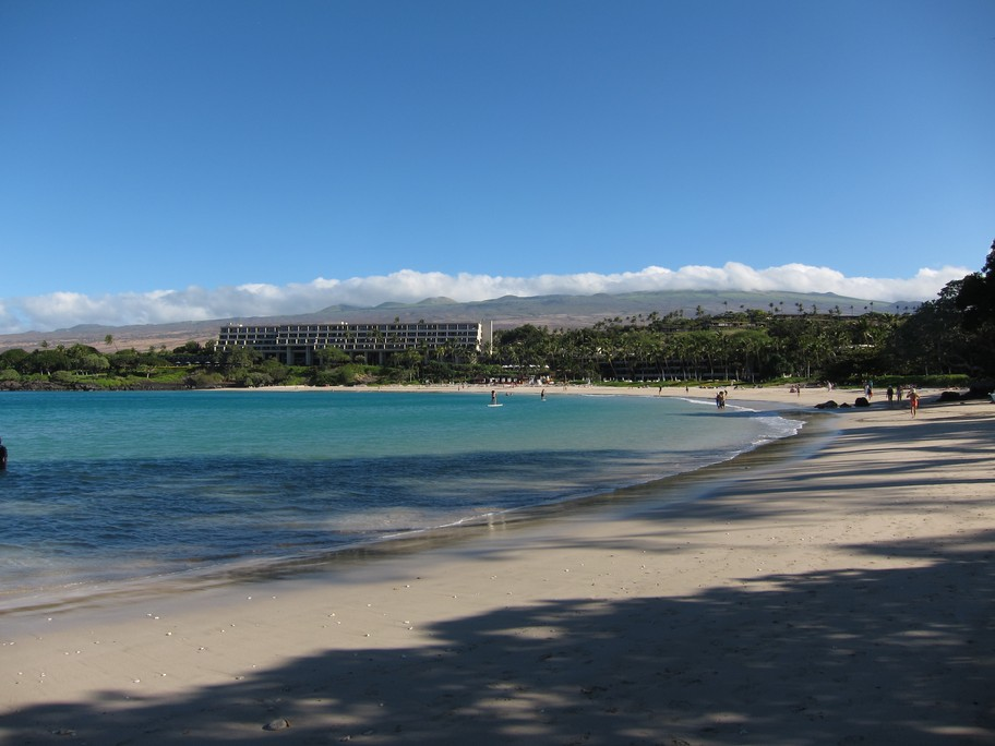 Kaunaoa Beach and the Mauna Kea Beach Hotel, with Kohala in the background.